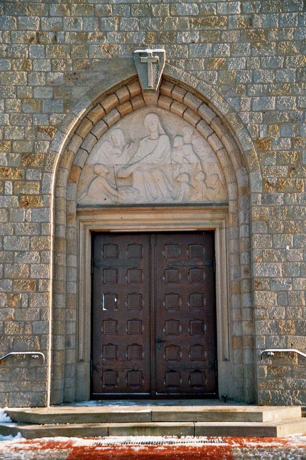 Portal of the Roman Catholic St. Philippus und Jacobus Church in Recke-Steinbeck, Kreis Steinfurt, North Rhine-Westphalia, Germany. The relief is a work by Joseph Krautwald.